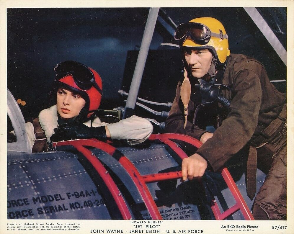 Janet Leigh and John Wayne in Jet Pilot (1957). Vintage 1957 8x10 color photo issued by RKO studio for the film classic Jet Pilot.